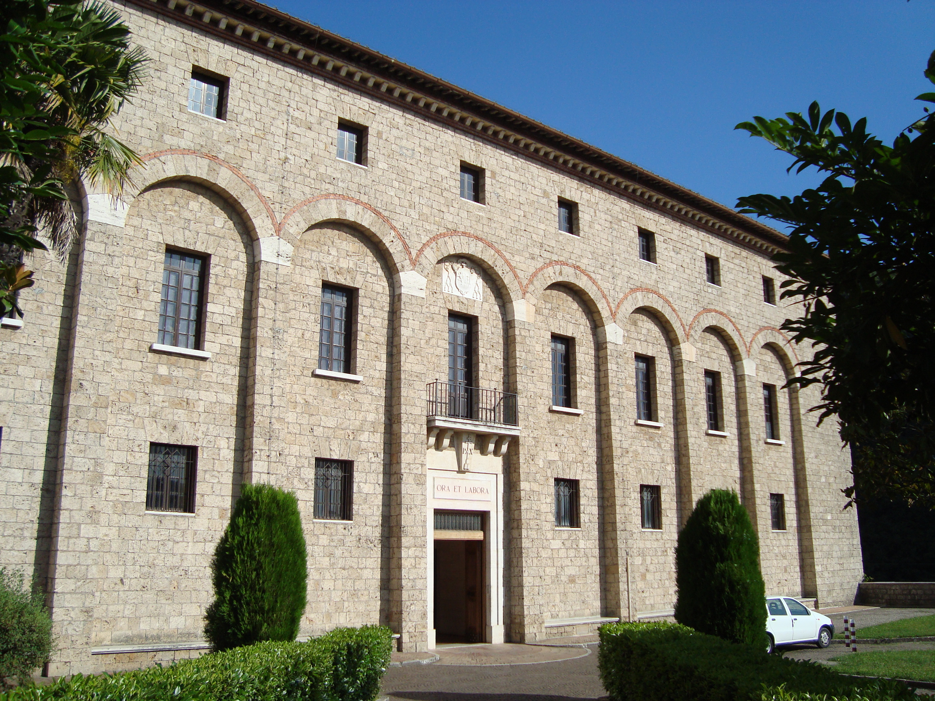 Entrance door of the Abbey Santa Scholastica, Subiaco, Italy